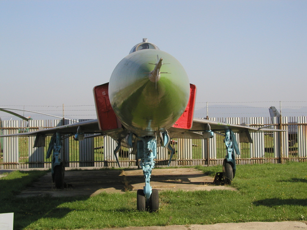 Front view of a former Ukrainian Su-15TM in the Aviation Museum in Kosice, Slovakia